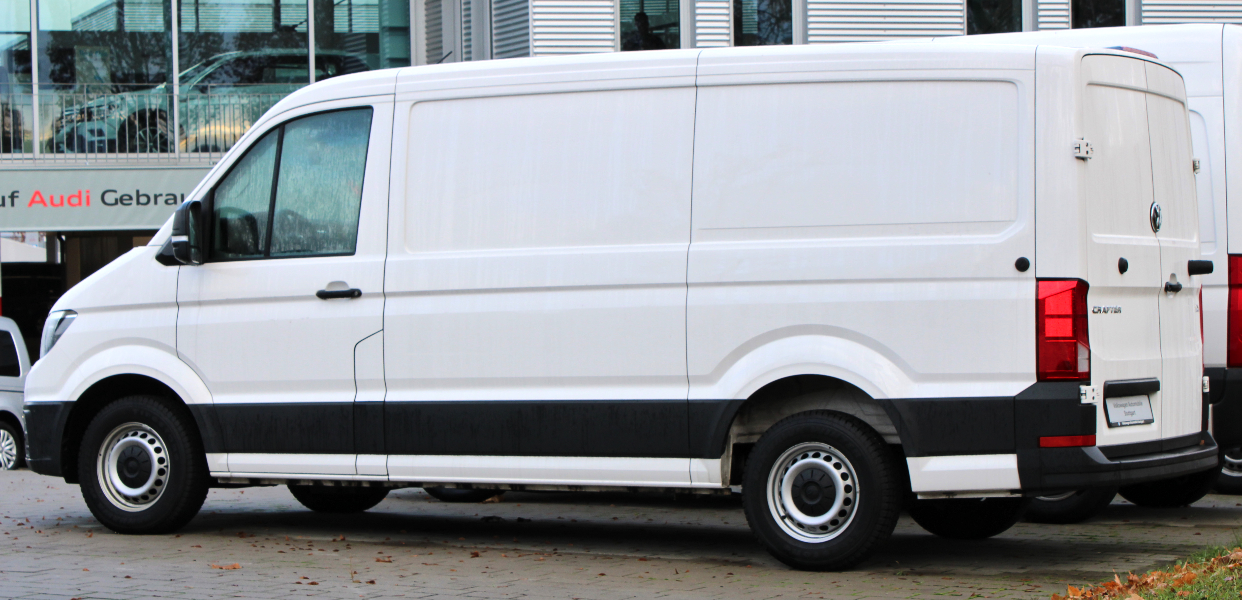 Volkswagen Crafter in Stuttgart-Vaihingen